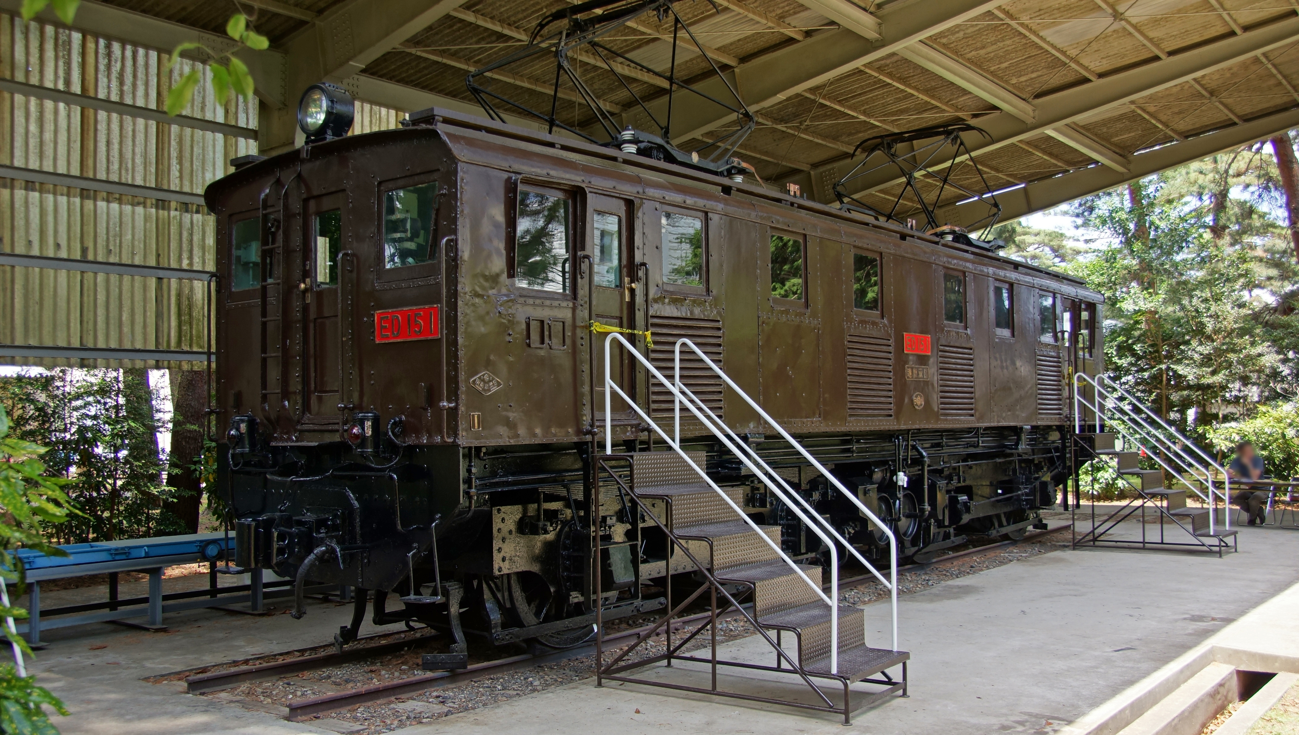 Preserved Class ED15 electric locomotive ED15 1 on display at the Hitachi Mito Factory annual "Satsuki Matsuri" open day in Hitachinaka, Ibaraki Prefecture, Japan